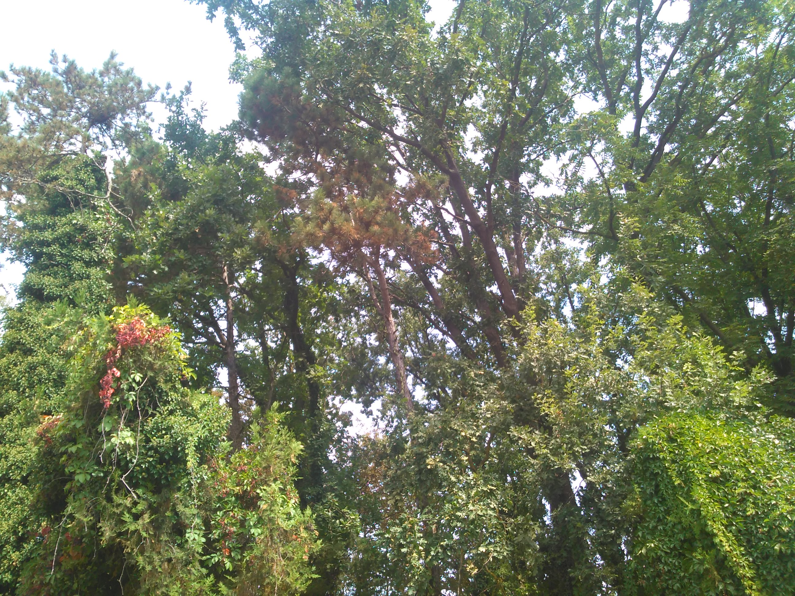 This is a view of some trees near Romania's Apollo hotel and near the beach